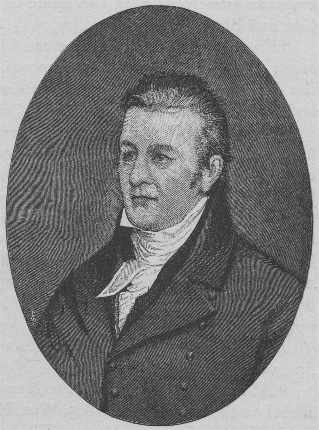 "Samuel M. Hopkins, one of the First Secretaries of the New England Society. From a painting by Trumbull." Image courtesy of the Yale University Manuscripts & Archives Digital Images Database, Yale University, New Haven, Connecticut.